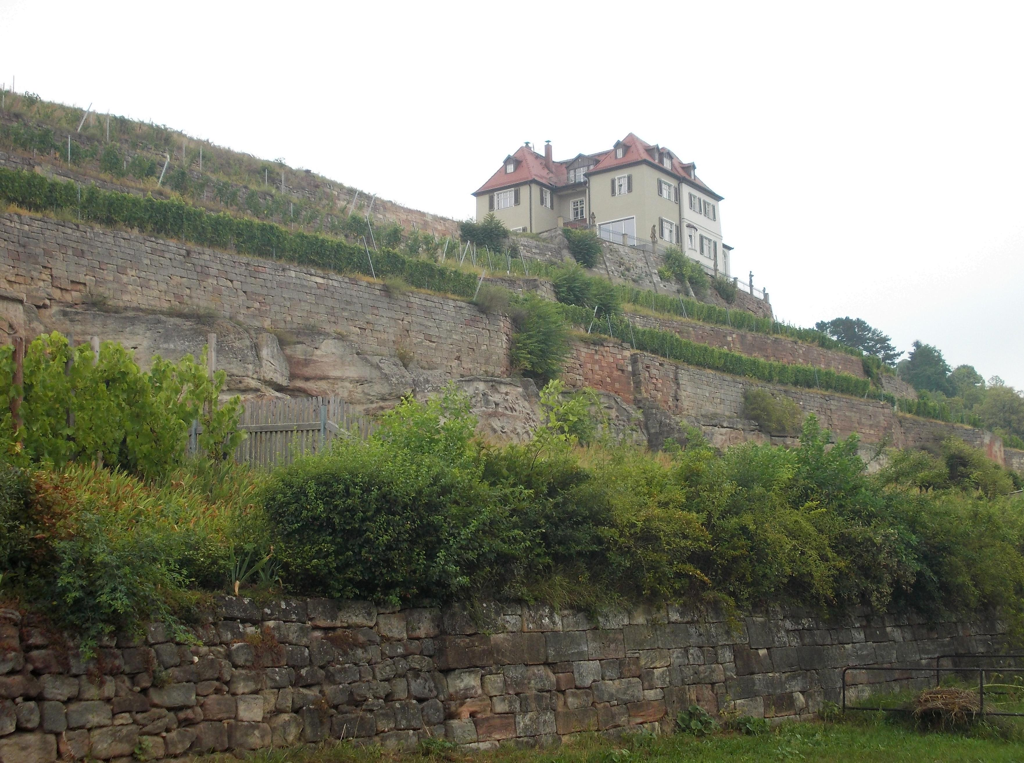 Steinauer's Vineyard in the Blütengrund near Grossjena (Naumburg, district: Burgenlandkreis, Saxony-Anhalt)